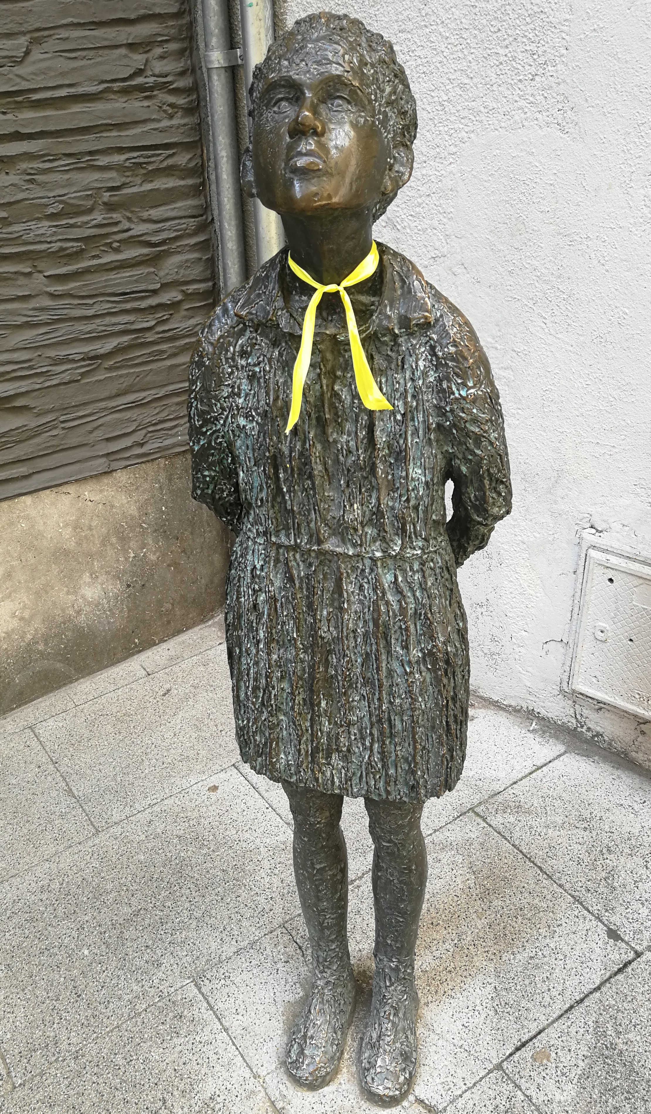 Anna Manella: Sculpture "Sense Luna" with yellow ribbon